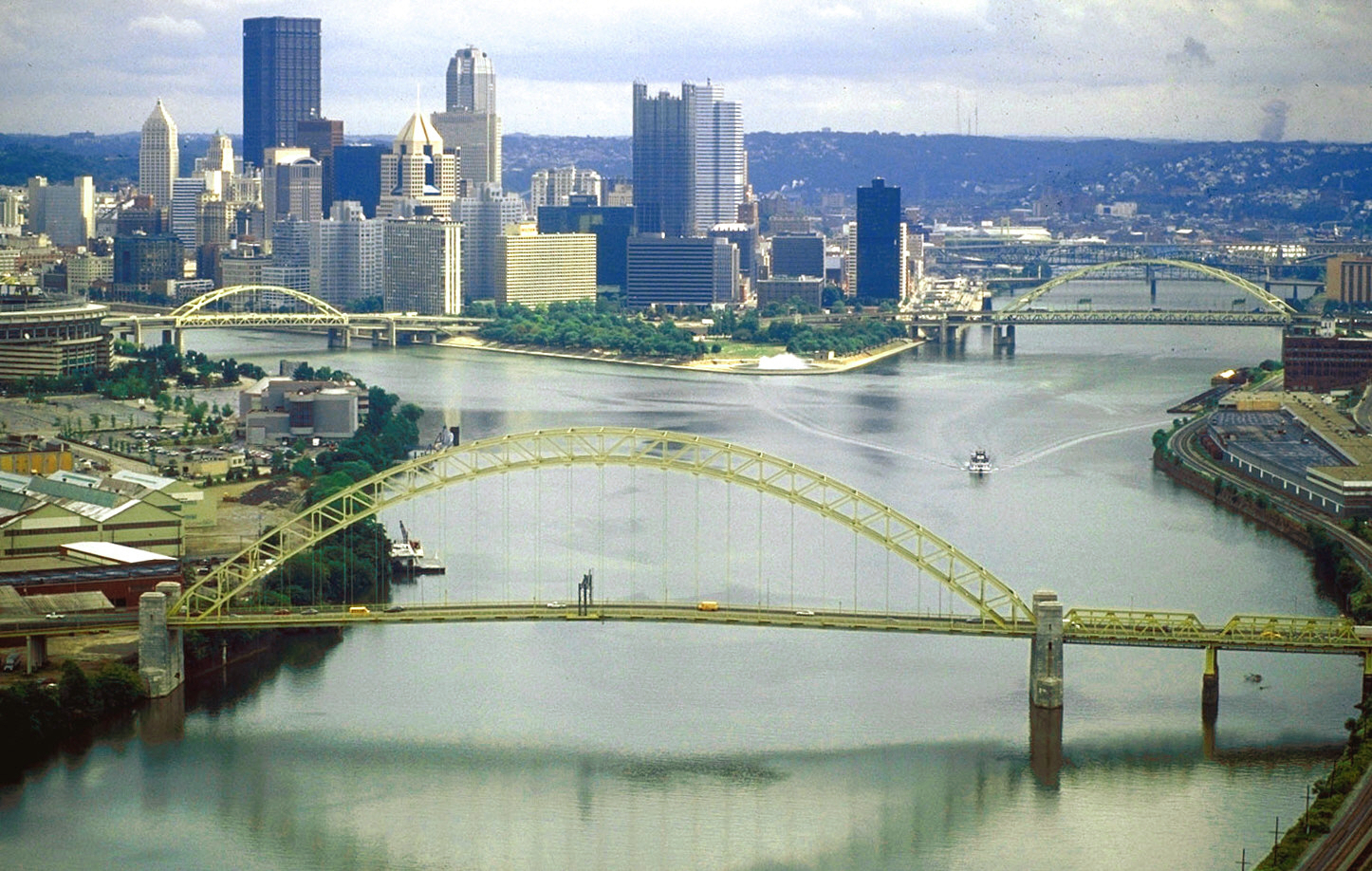 The source of the Ohio River at “The Point” in Point State Park, Pittsburgh, Pennsylvania. The Allegheny River (left) and the Monongahela River (right) join to form the Ohio here. The West End Bridge crosses the Ohio in the foreground.